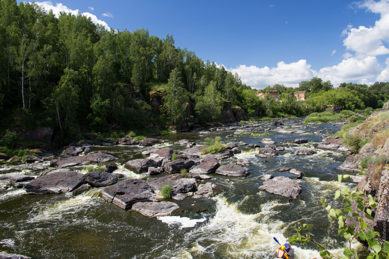 Revun Rapid on Iset River, Sverdlovsk oblast, Russia